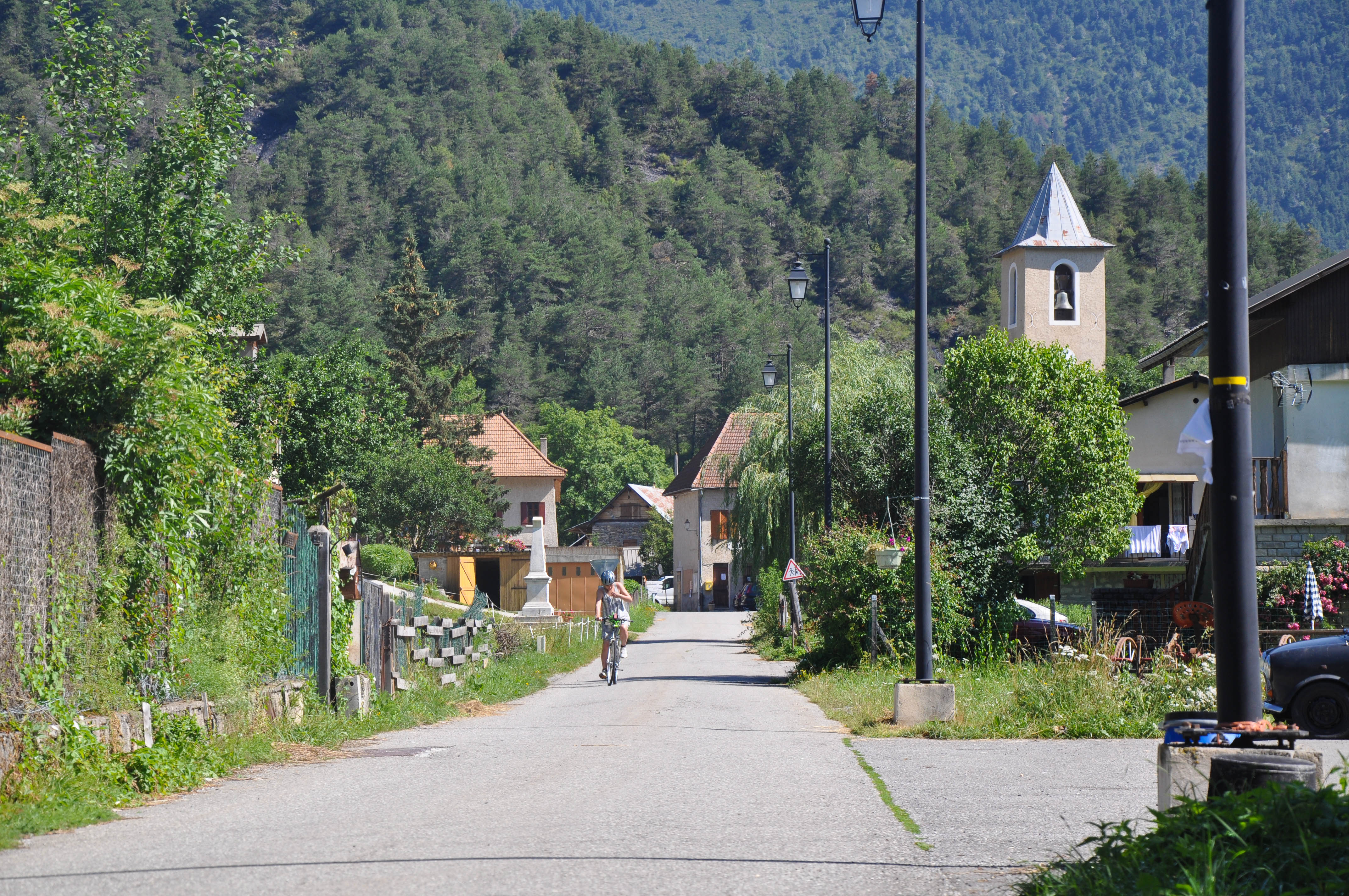 L'église paroissiale Saint-Jean-Baptiste au centre du village